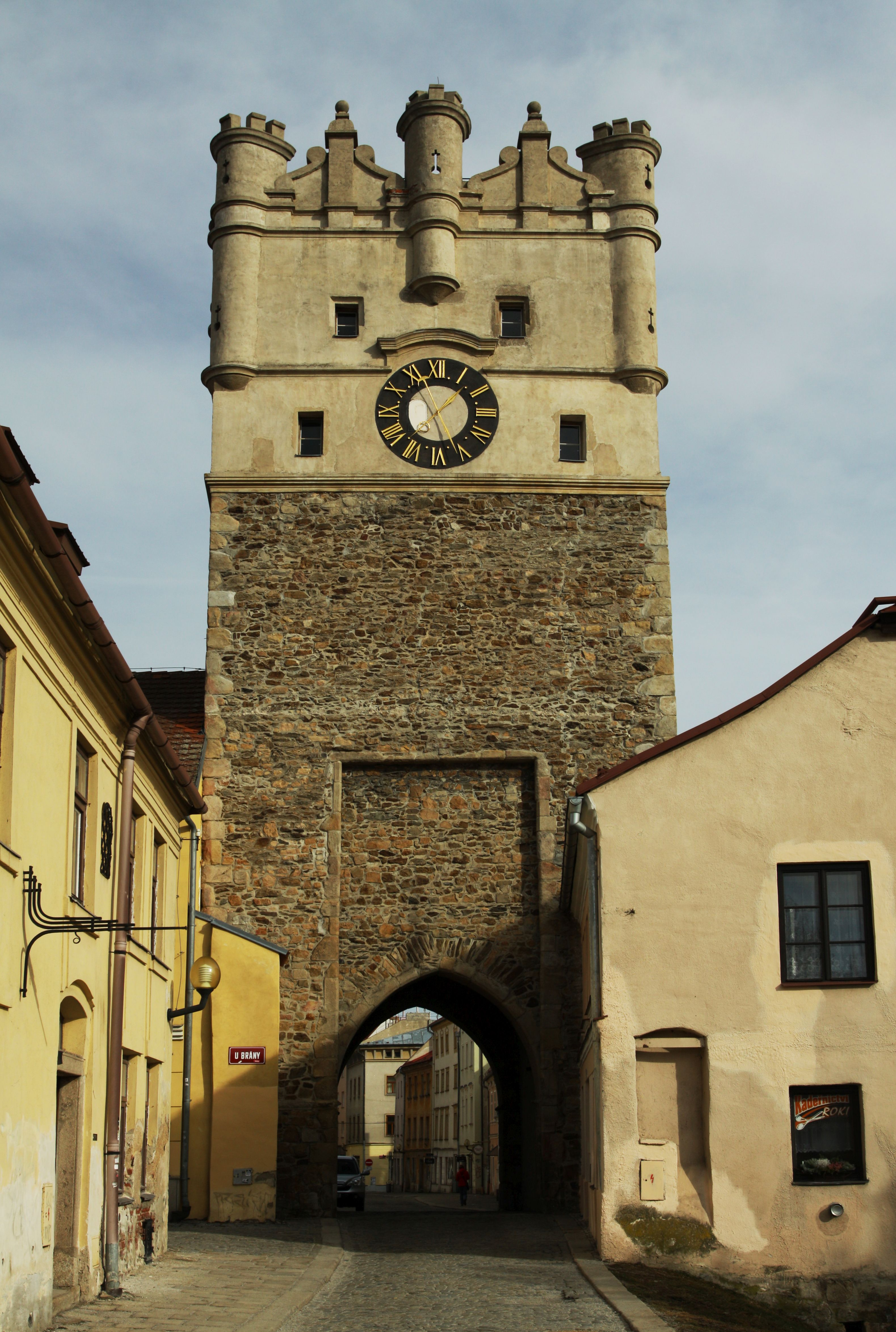 Tower of Our Lady in old town in Jihlava, Jihlava District, Czech Republic